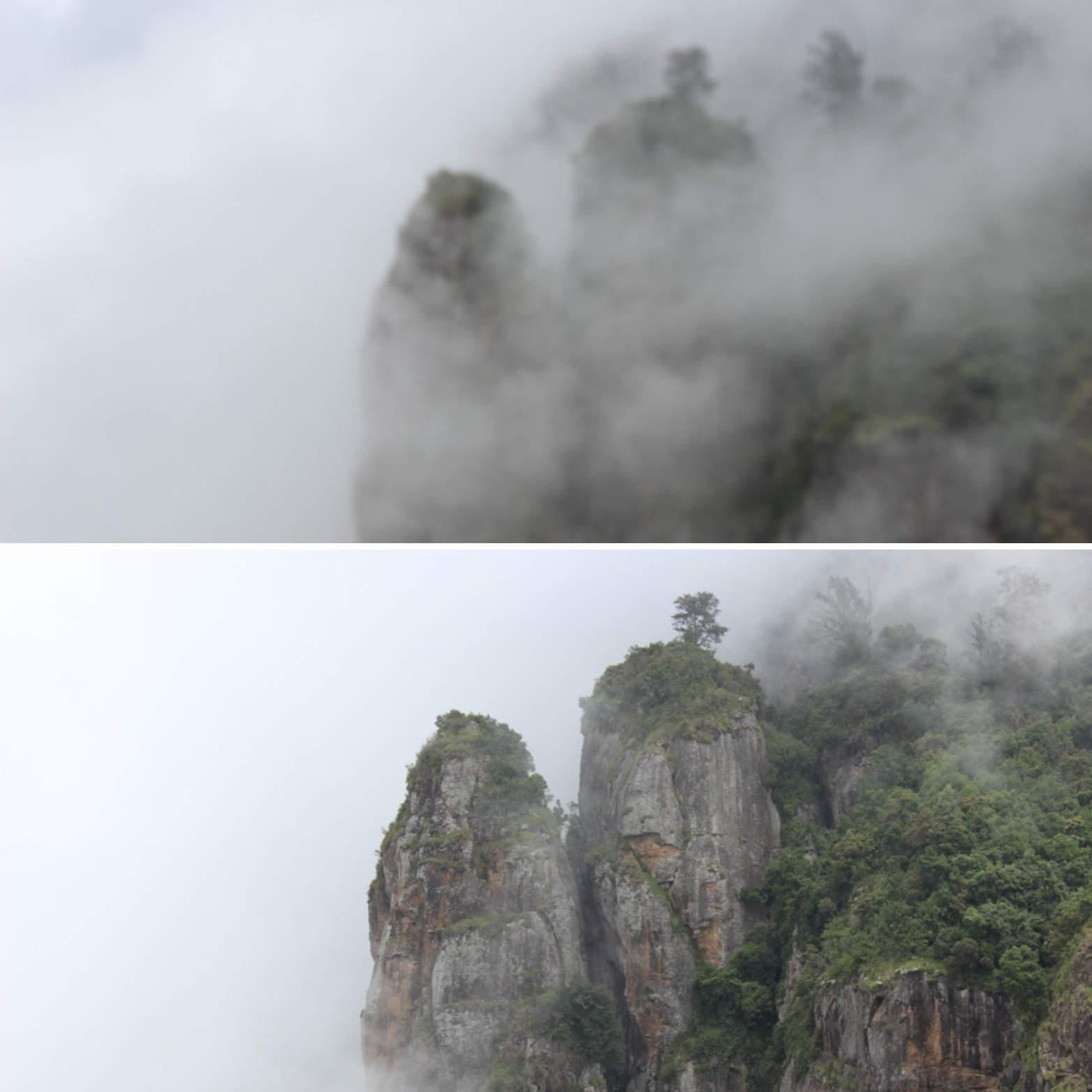 Pillar Rock View with and without Mist in Kodaikanal.